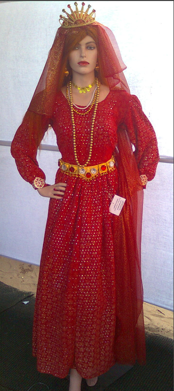 Original Outfit of Queen Brijeena in Chavittu Nadakam